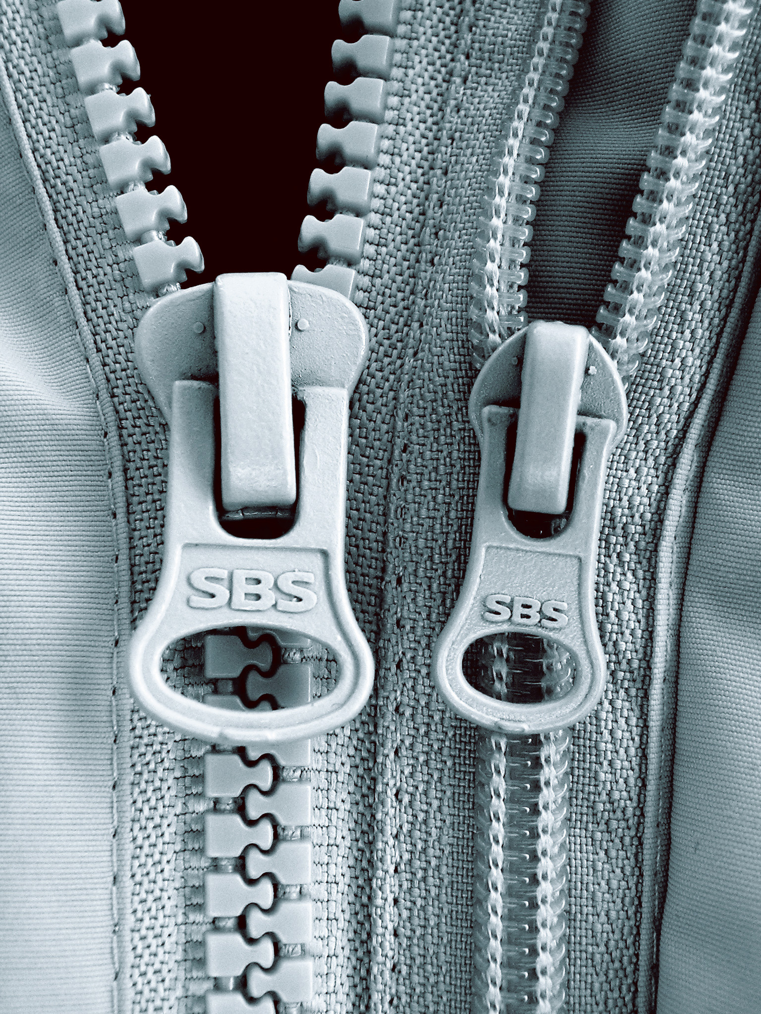 Plastic and Nylon zippers